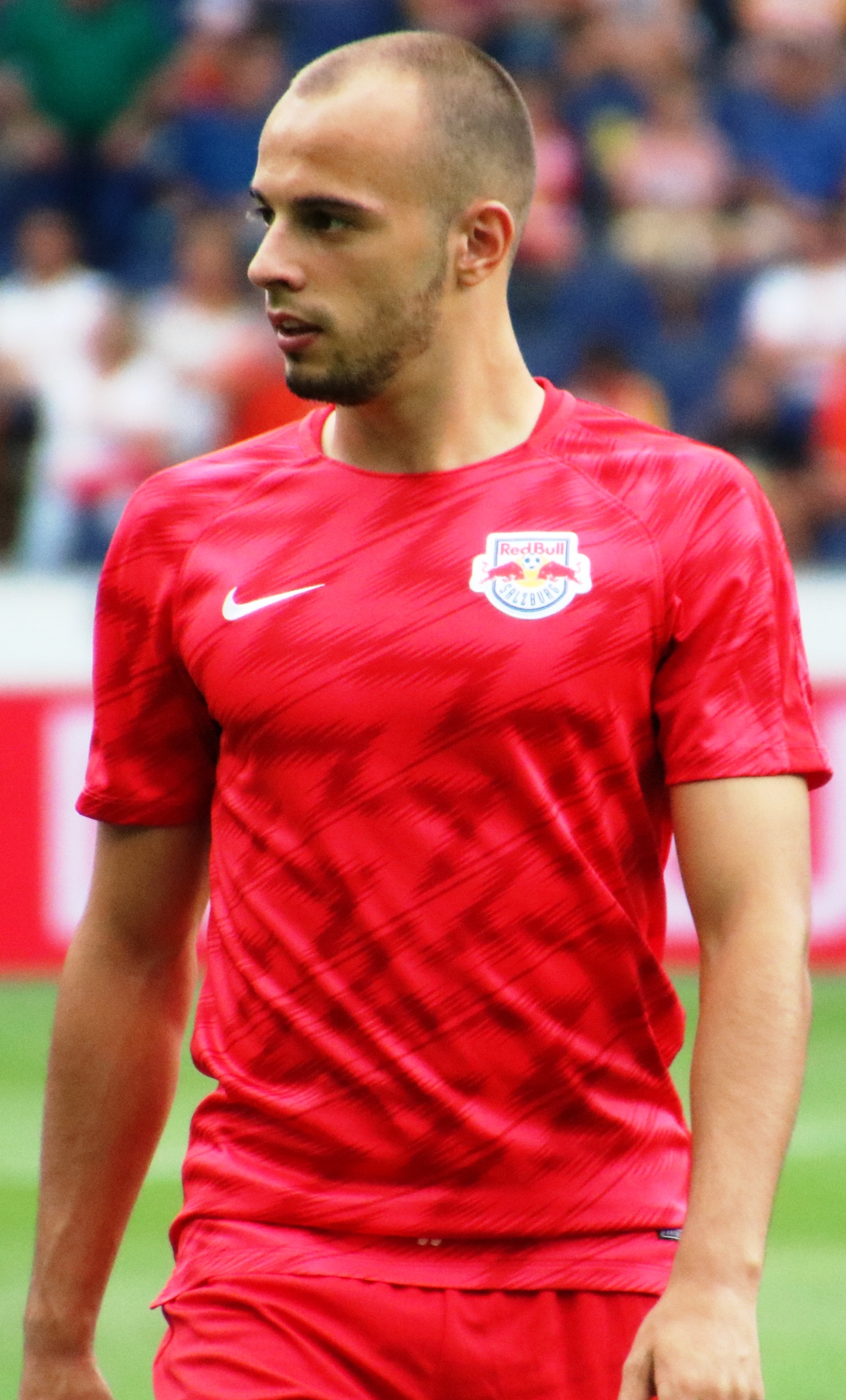 Austrian Bundesliga league match 3rd round